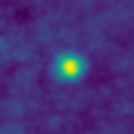 With its Long Range Reconnaissance Imager (LORRI), New Horizons has observed several Kuiper Belt objects (KBOs) and dwarf planets at unique phase angles, as well as Centaurs at extremely high phase angles to search for forward-scattering rings or dust. These December 2017 false-color images of KBOs 2012 HZ84 (left) and 2012 HE85 are, for now, the farthest from Earth ever captured by a spacecraft. They're also the closest-ever images of Kuiper Belt objects.